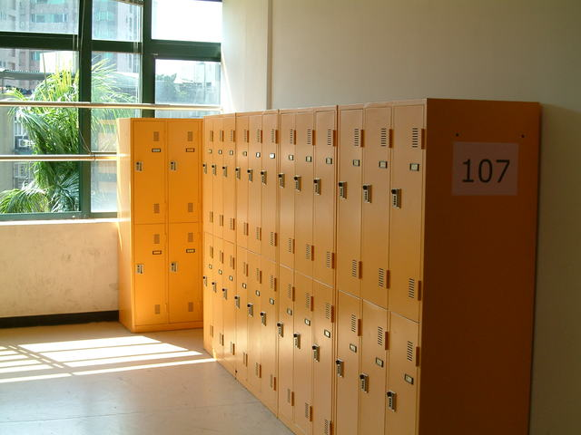 The Lockers of LSSH.